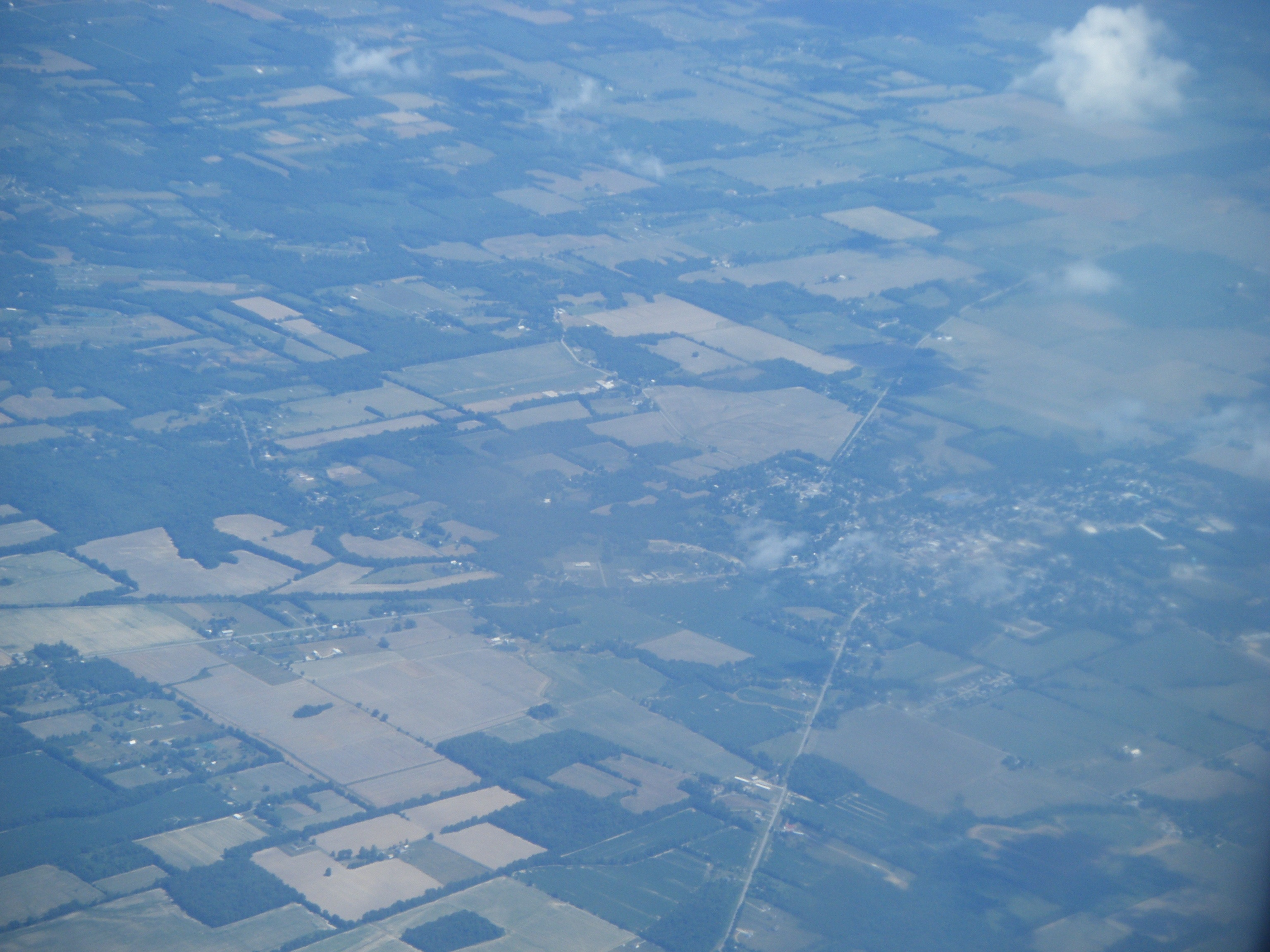 A view of Blanchester, Ohio taken from an airplane